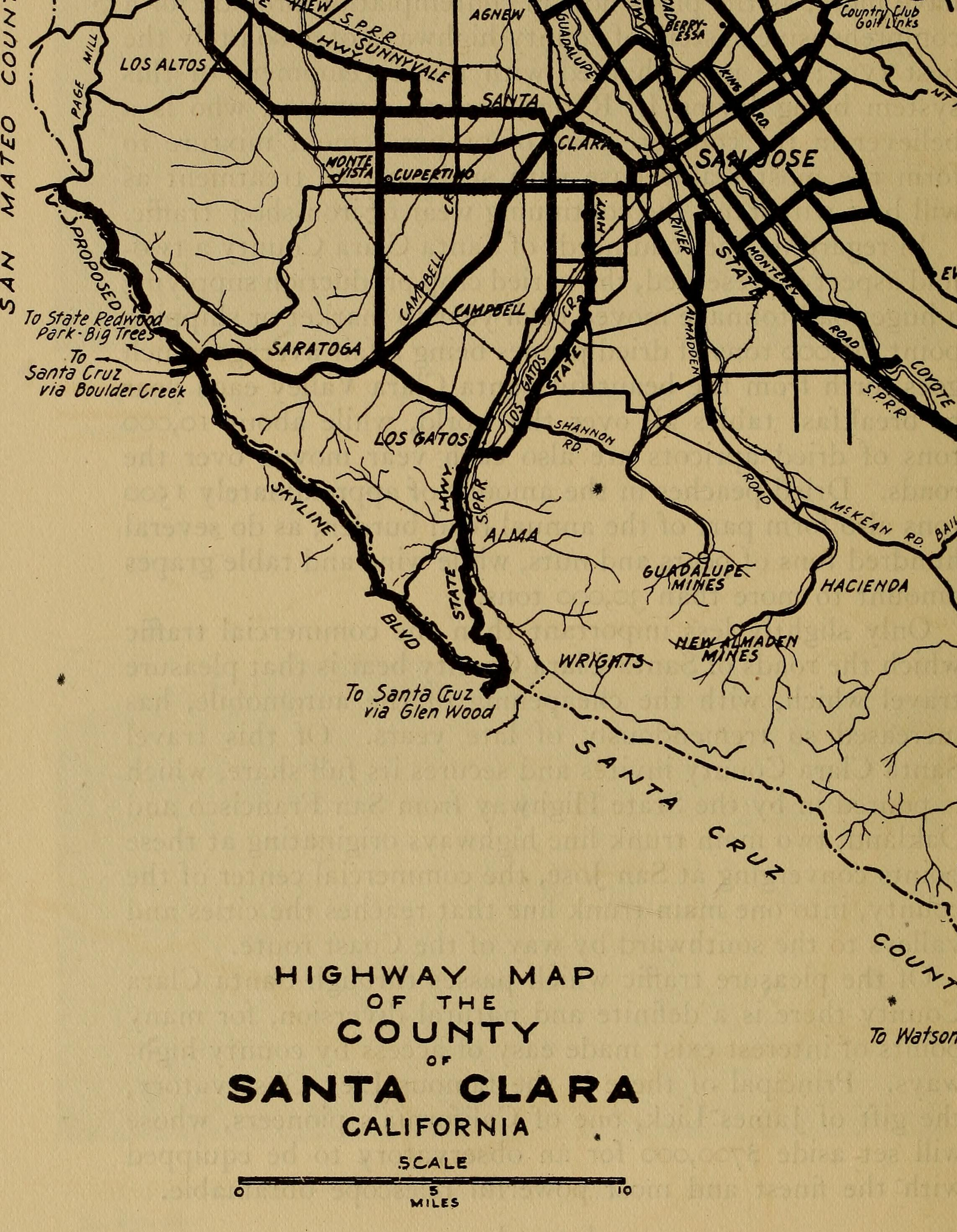 Highway Map of the County of Santa Clara, California; see full image below Title: California highways; a descriptive record of road development by the state and by such counties as have paved highways Year: 1920 (1920s) Authors: Blow, Ben, 1868- Subjects: Roads Publisher: San Francisco Text Appearing Before Image: rafficwhich the roads of Santa Clara County bear is that pleasuretravel which, with the cheapening of the automobile, hasincreased so tremendously of late years. Of this travelSanta Clara County invites and secures its full share, whichis poured in by the State Highway from San Francisco andOakland, two main trunk line highways originating at thesepoints converging at San Jose, the commercial center of thecounty, into one main trunk line that reaches the cities andvalleys to the southward by way of the Coast route. Of the pleasure traffic which passes through Santa ClaraCounty there is a definite and natural diversion, for manypoints of interest exist made easy of access by county high-ways. Principal of these is the famous Lick Observatory,the gift of James Lick, one of Californias pioneers, whosewill set aside $700,000 for an observatory to be equippedwith the finest and most powerful telescope obtainable. (241) To San MateoSan Francisco SAN FRANCISCO BAY To Nilgy Hayward, tfi. mmm. Text Appearing After Image: To Santa Quz ▼ V-^via Glen Mod I v-.^- HIGHWAY MAP OF THE COUNTY SANTA CLARA CALIFORNIA SCALE O 5 10MILES With the exception of the Sky-line Boulevard and the Pacheco Pass route of the State High-way all highways shown are completed. ALAMEDA COUNTS (243)